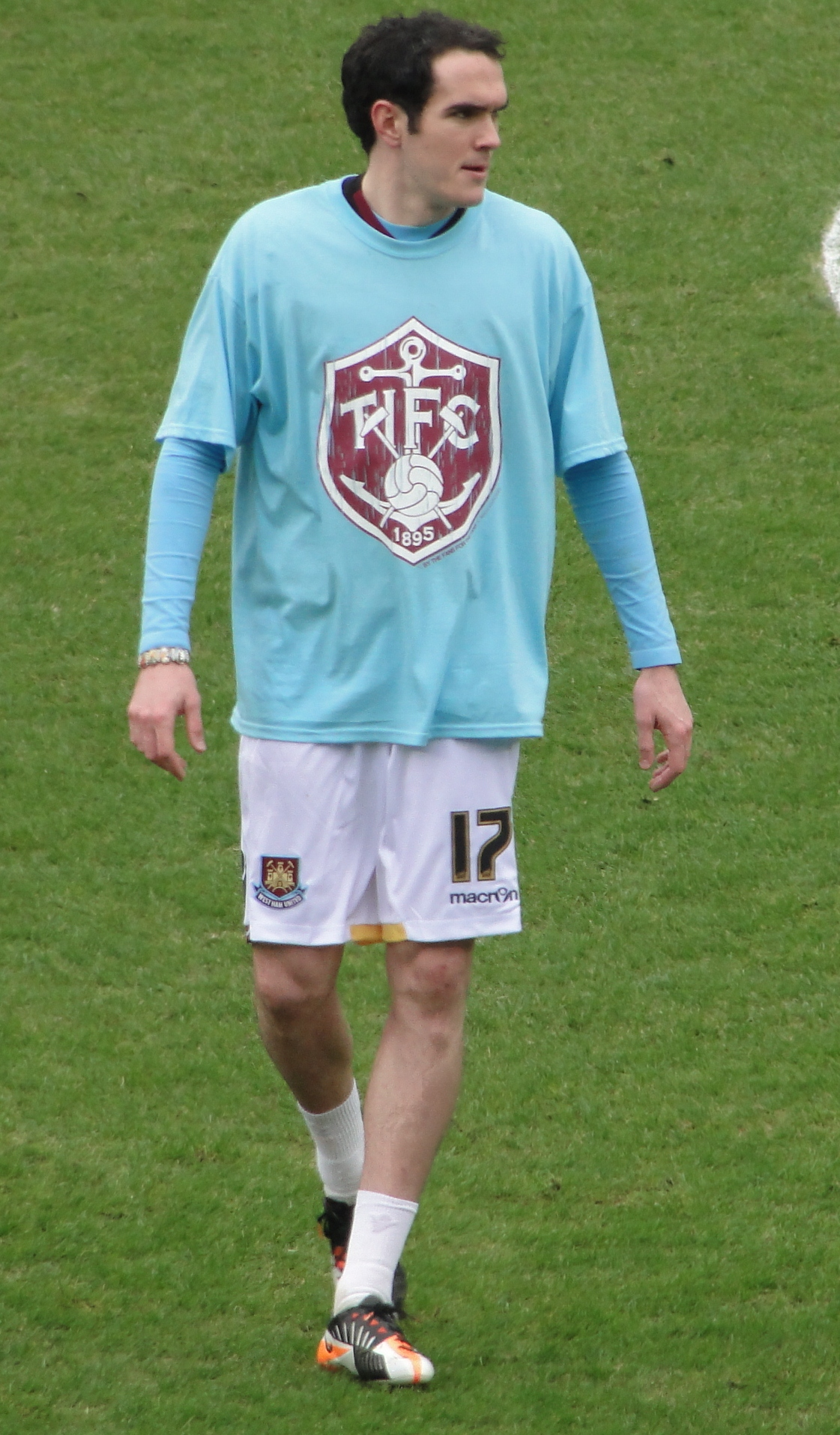 West Ham footballer Joey O'Brien warming-up before their game against Millwall, Boleyn Ground, London, February 2012